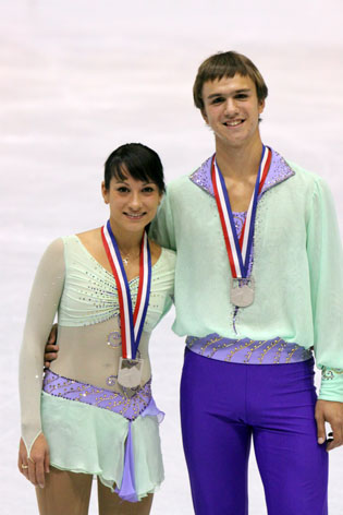 Ksenia Stolbova and Fedor Klimov (RUS) on the podium (2nd) at the 2009-2010 Junior Grand Prix Lake Placid.